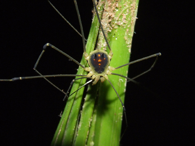 Paecilaemula smaragdula Mello-Leitão, 1941, from Espírito Santo, Brazil.